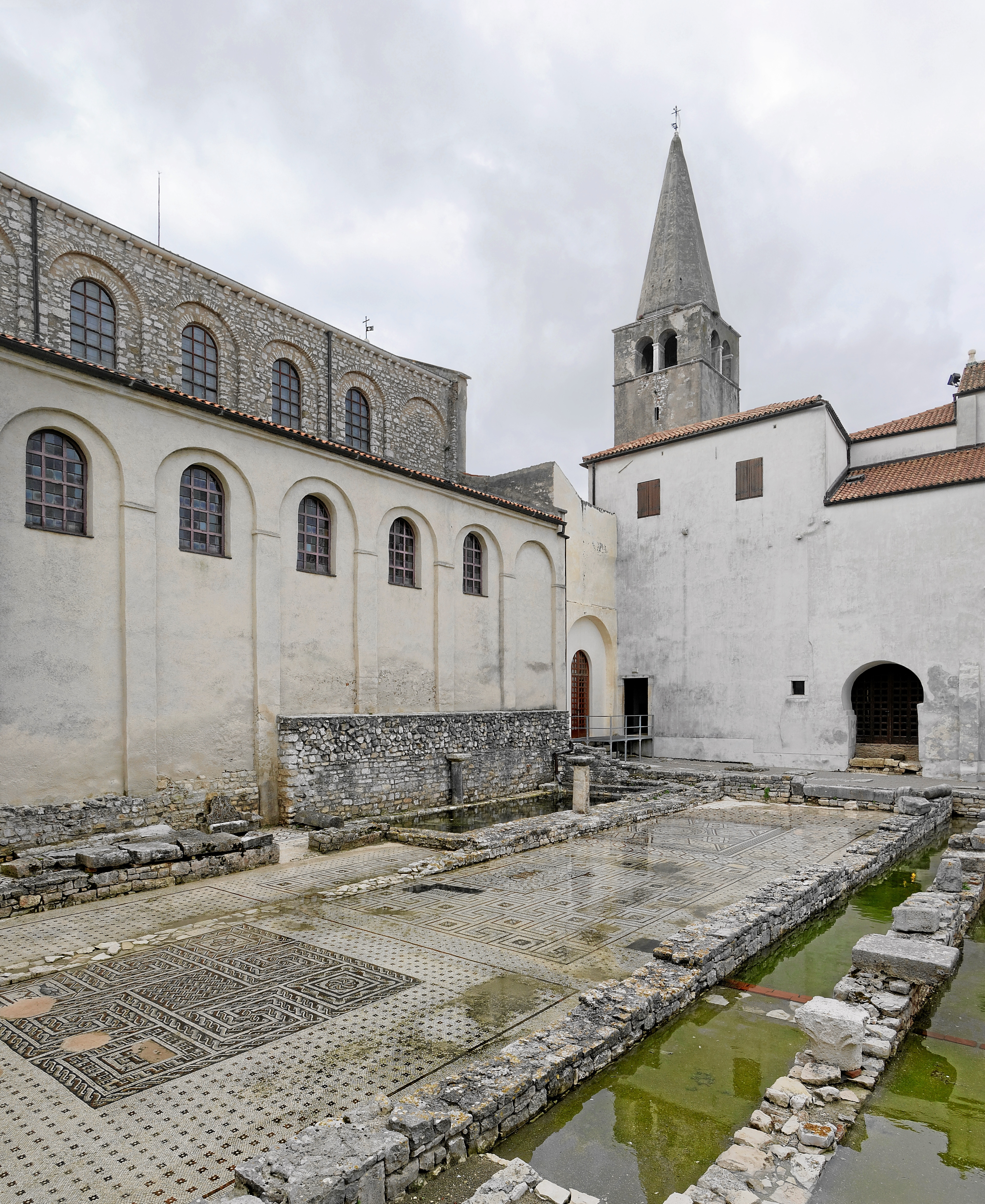 Croatia, Poreč, Euphrasian Basilica, north side